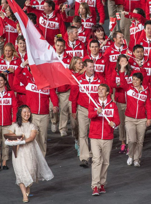 Simon Whitfield carrying the Canadian flag during the opening ceremonies at the 2012 Olympic Games in London